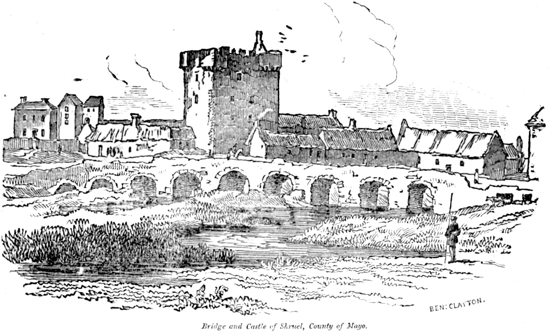 Illustration of Shrule (Shruel) from the February 9, 1833 edition of the Dublin Penny Journal. Obtained from Library Ireland.